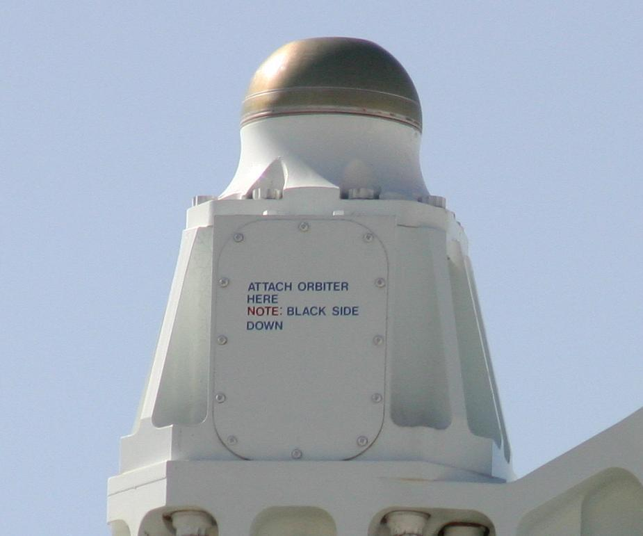 Space Shuttle orbiter mounting point on a Shuttle Carrier Aircraft.